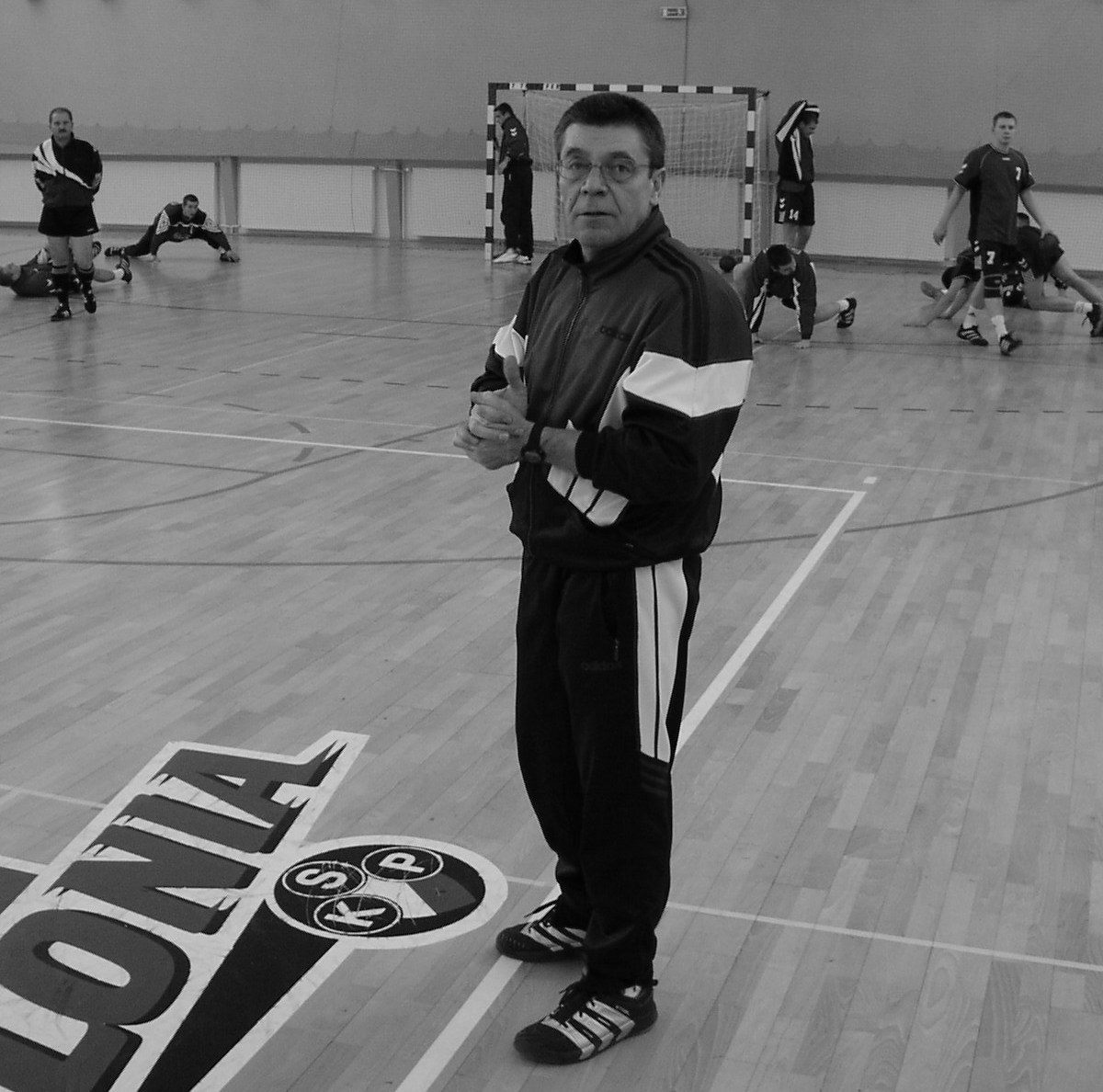 Andrzej Krawczyk - piłkarz ręczny